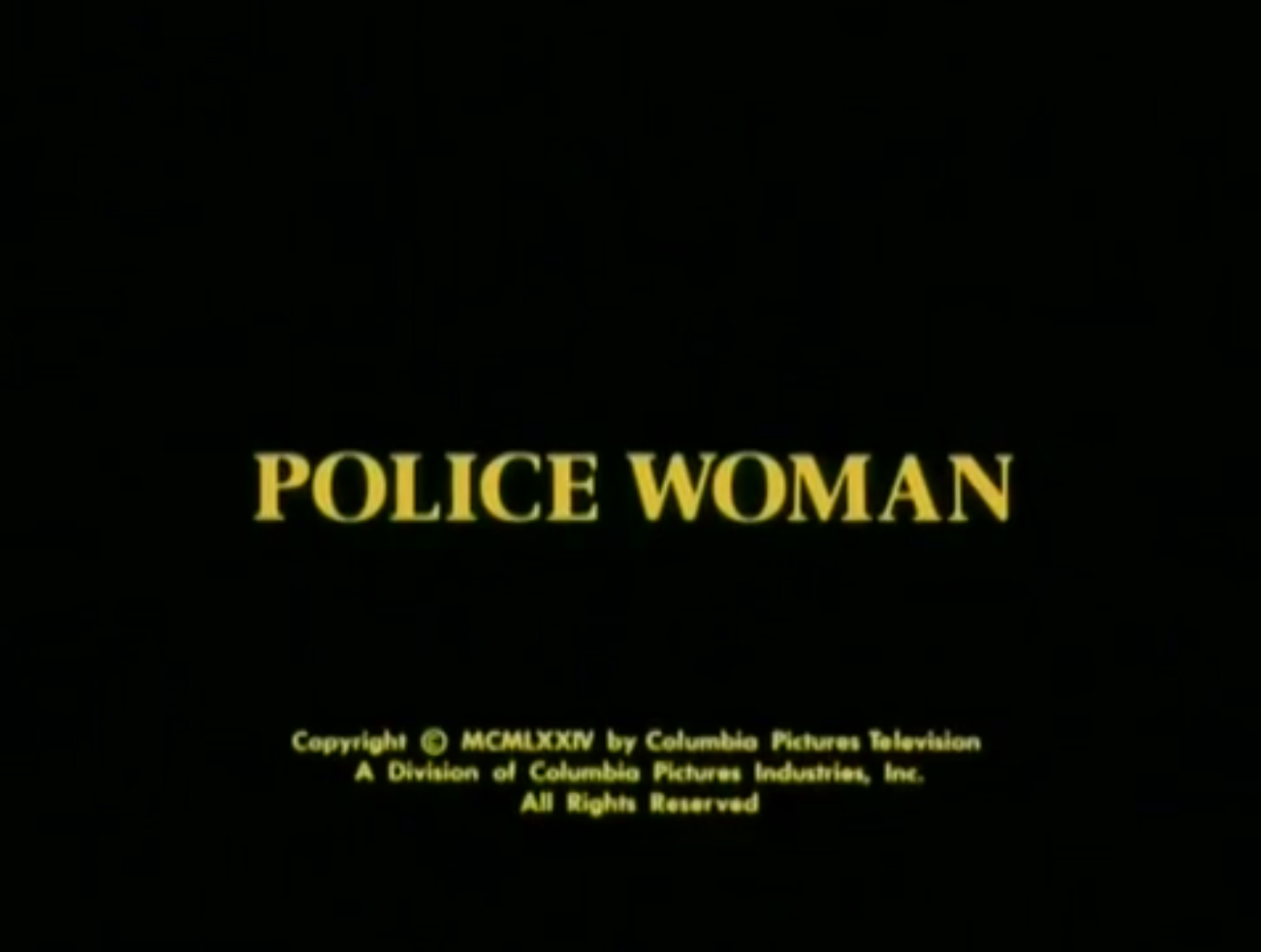 Opening title of Police Woman (1974–78)